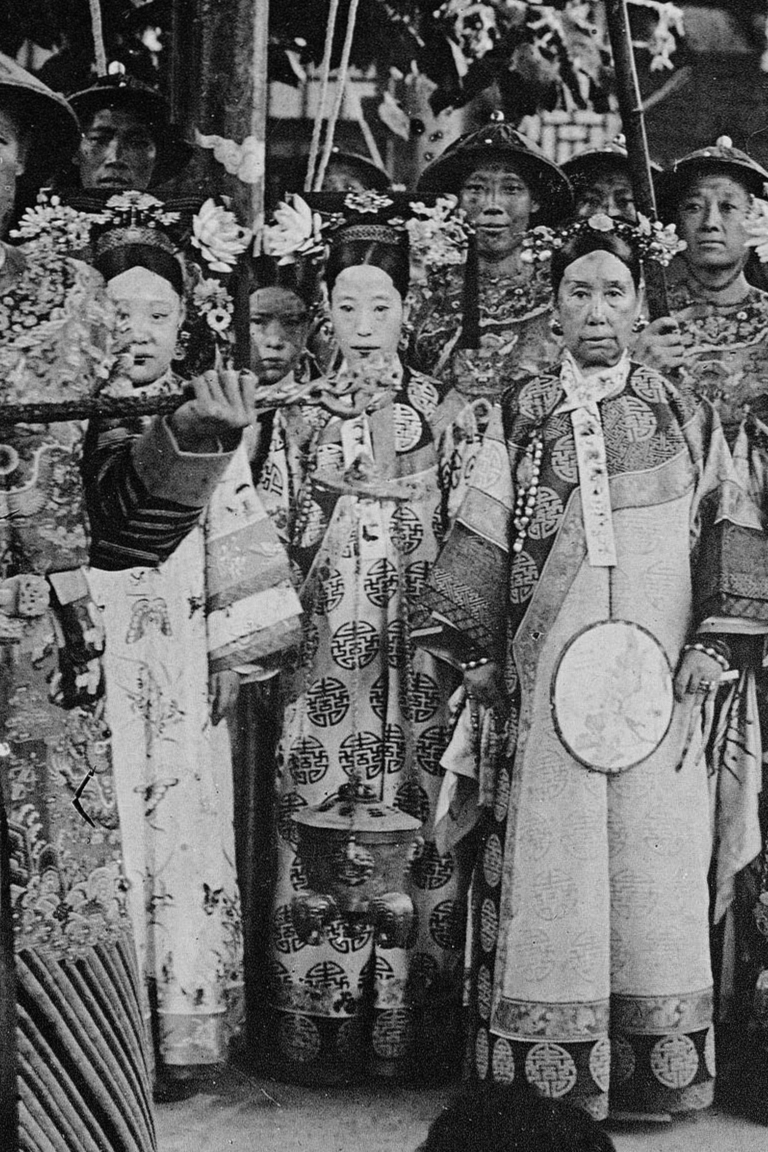 R to L: Empress Dowager, Empress, and Imperial Concubine of China